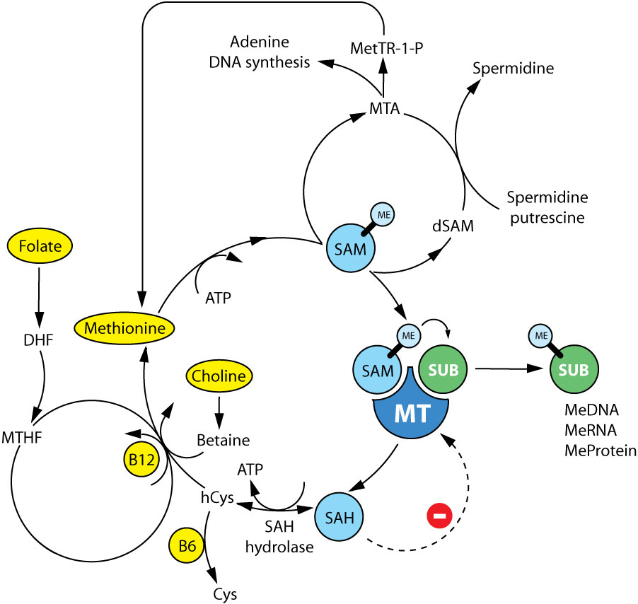 Design & prooduction: Kosi Gramatikoff User:Kosigrim The methionine metabolism pathway